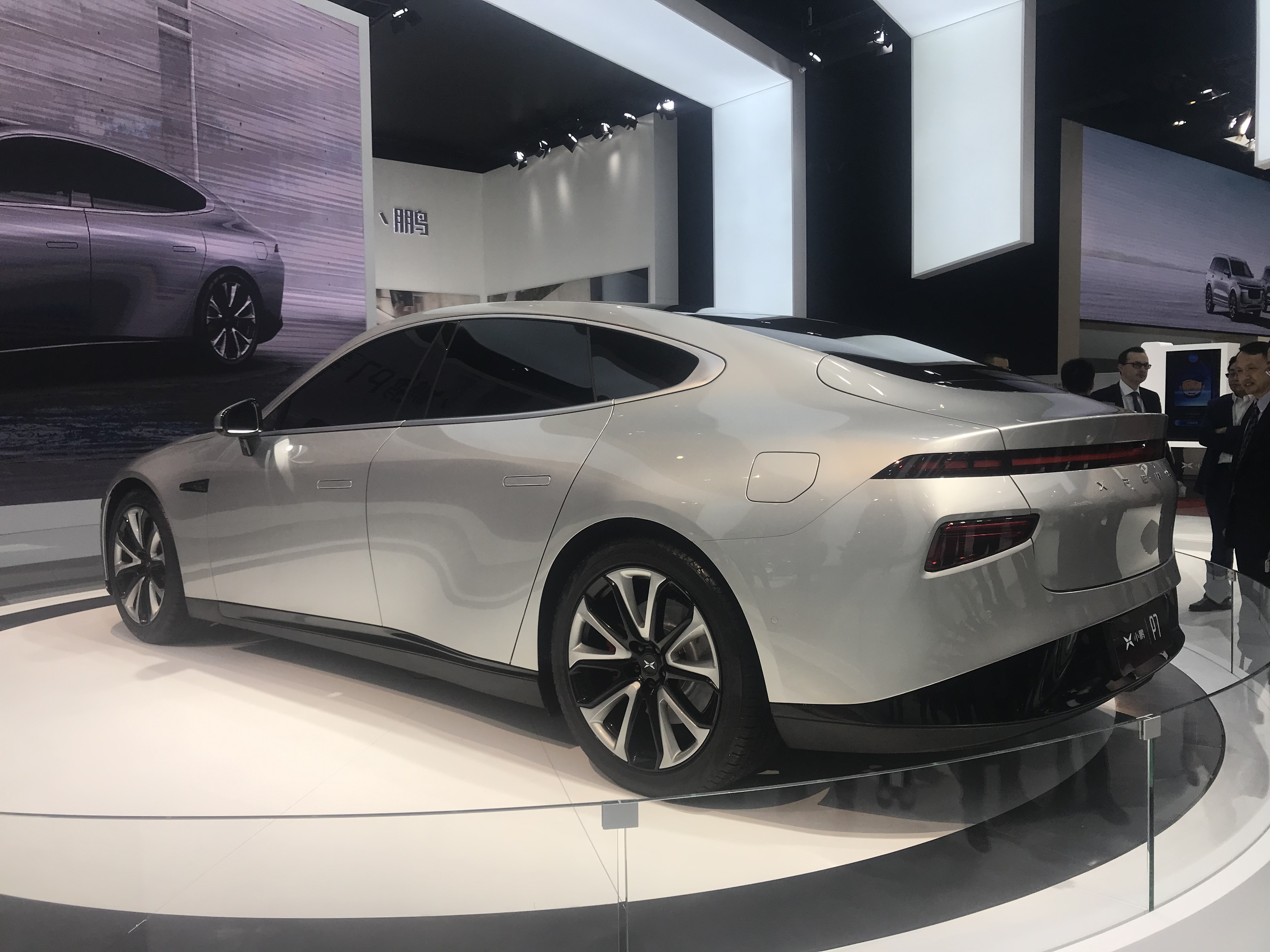 Xpeng (Xiaopeng) P7 rear